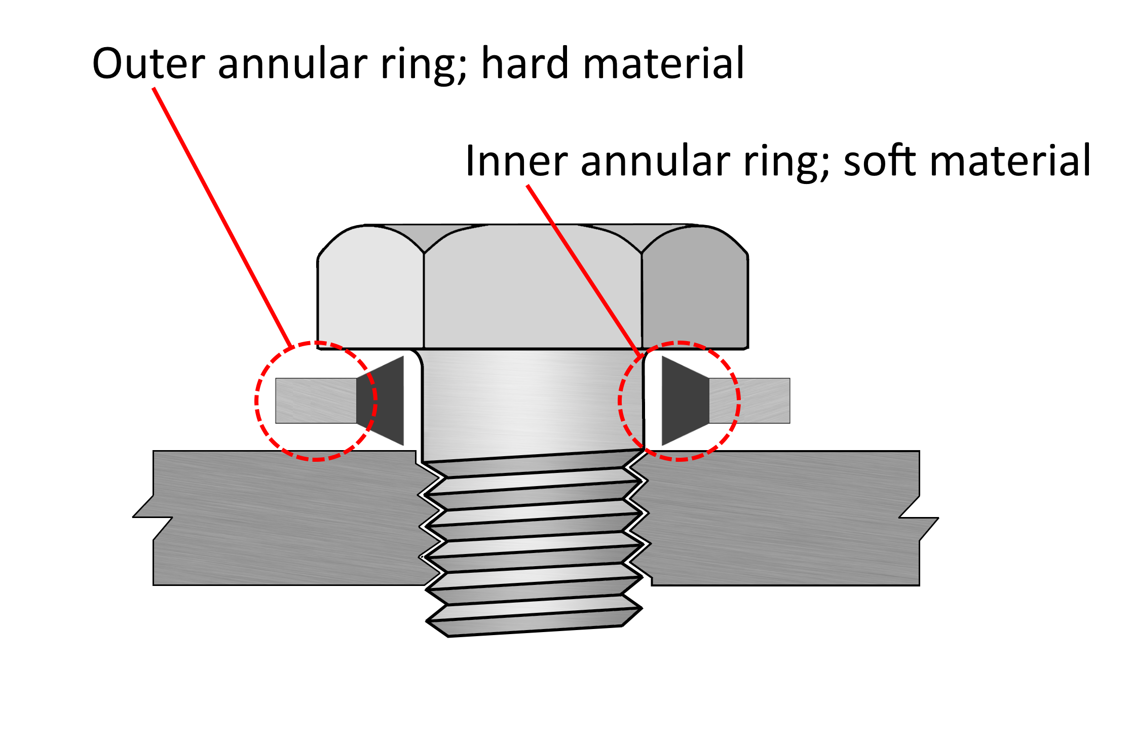 Semi-technical drawing outlining how a bonded seal works.